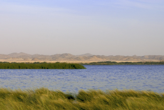 This lake is where they dump all the sewage of Jeddah city, the second biggest city in Saudi Arabia. It smells horrible but it has some amazing views. I and a group of photographer friends went on a trip for a couple of hours and got some great shots Camera: Nikon D200 License on Flickr (2011-02-10): CC-BY-2.0 Flickr tags: Outdoor, Water, Waste, Day, Desert, Landscape, Organic Waste, Photojournalism